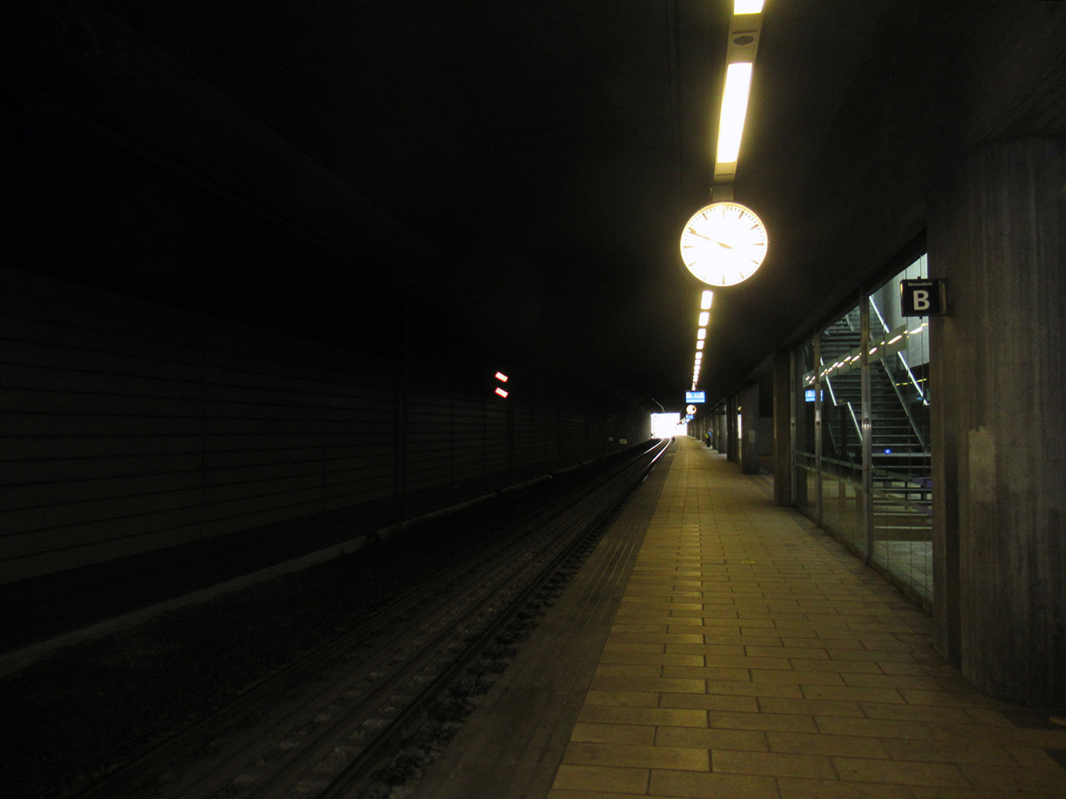 Tårnby station